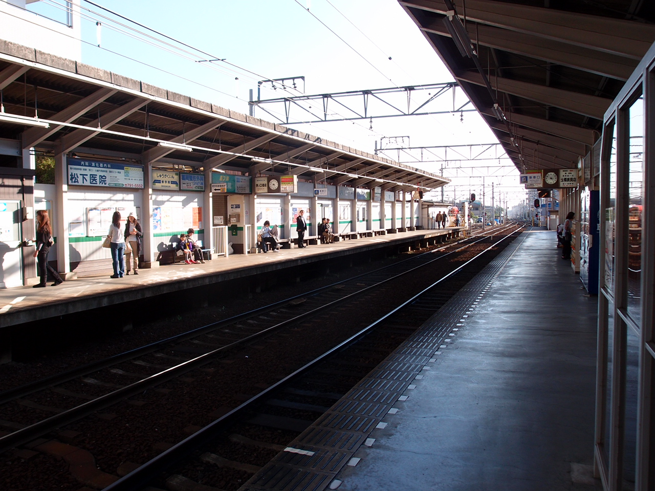 Shūgakuin Station of Eizan Electric Railway in Kyoto. The platform in the right hand is bound for Kurama and Yase-Hieizanguchi.